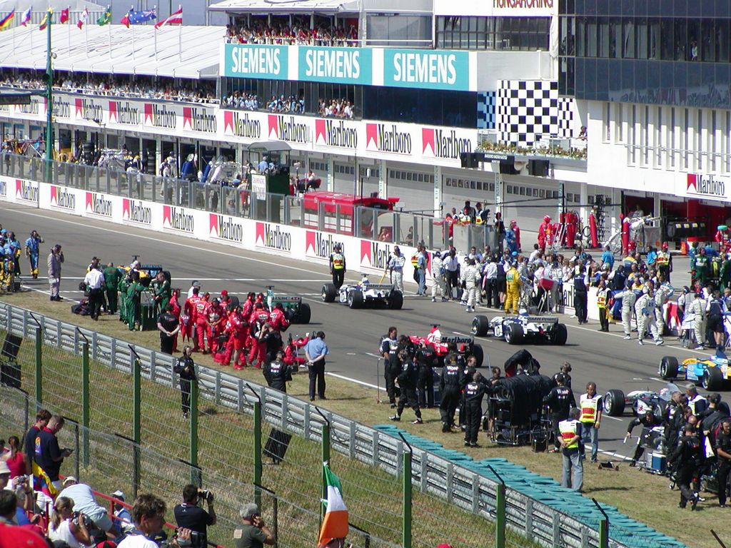 Front of the start grid at the 2003 Hungarian Grand Prix.